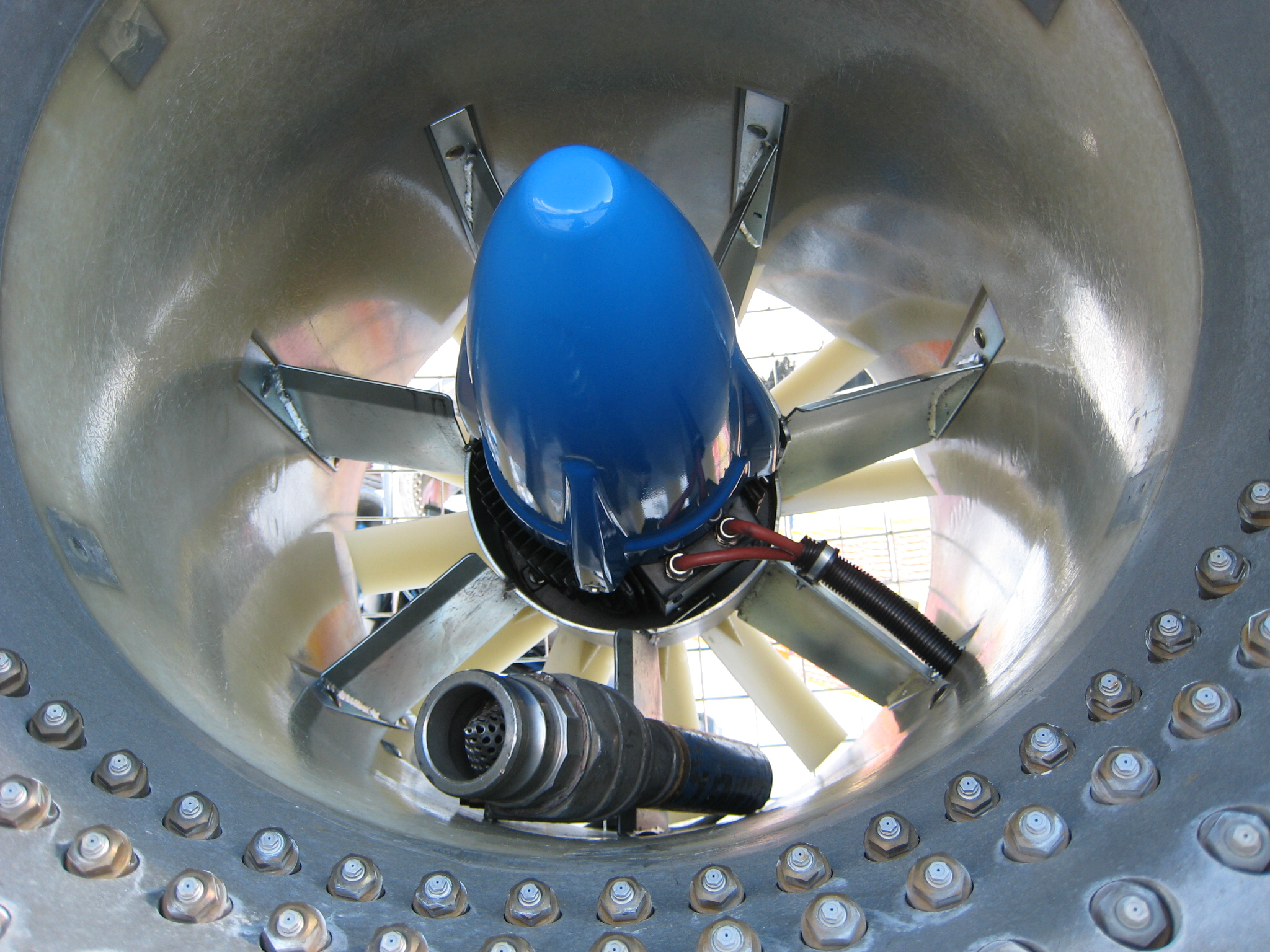 Close up to a snow cannon